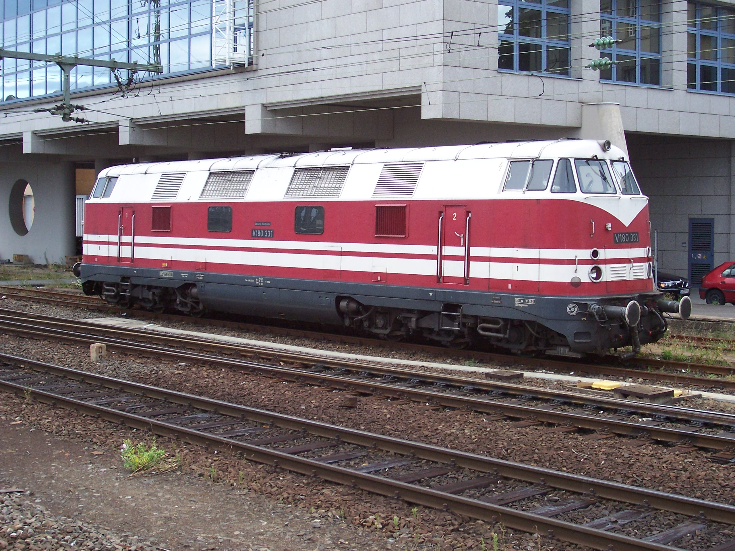 V180 331 in Darmstadt, germany my own photo from 08-aug-2005